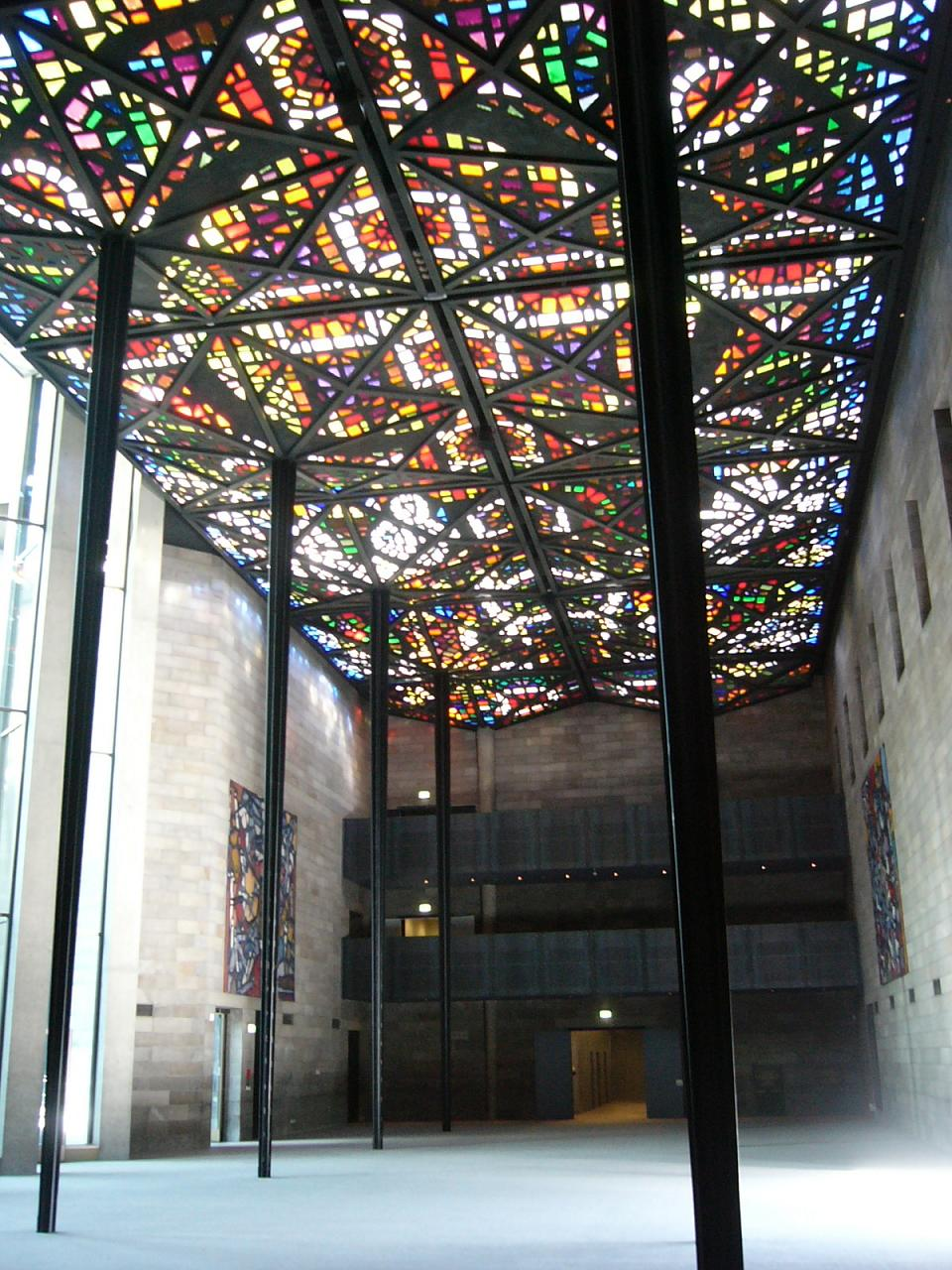 Glass ceiling by Leonard French National Gallery in Melbourne/Australia